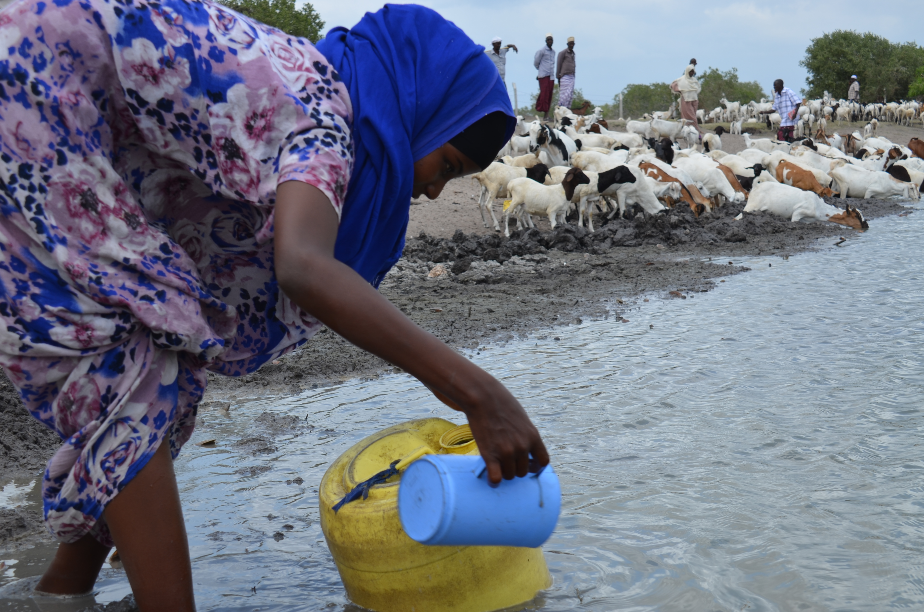 Women working to draw water for her family after walking distance of 20km at Korisa village in Northeastern This is an image of "African people at work" from Kenya